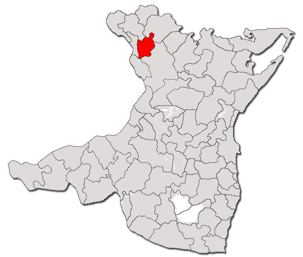 Contour map of Horia commune